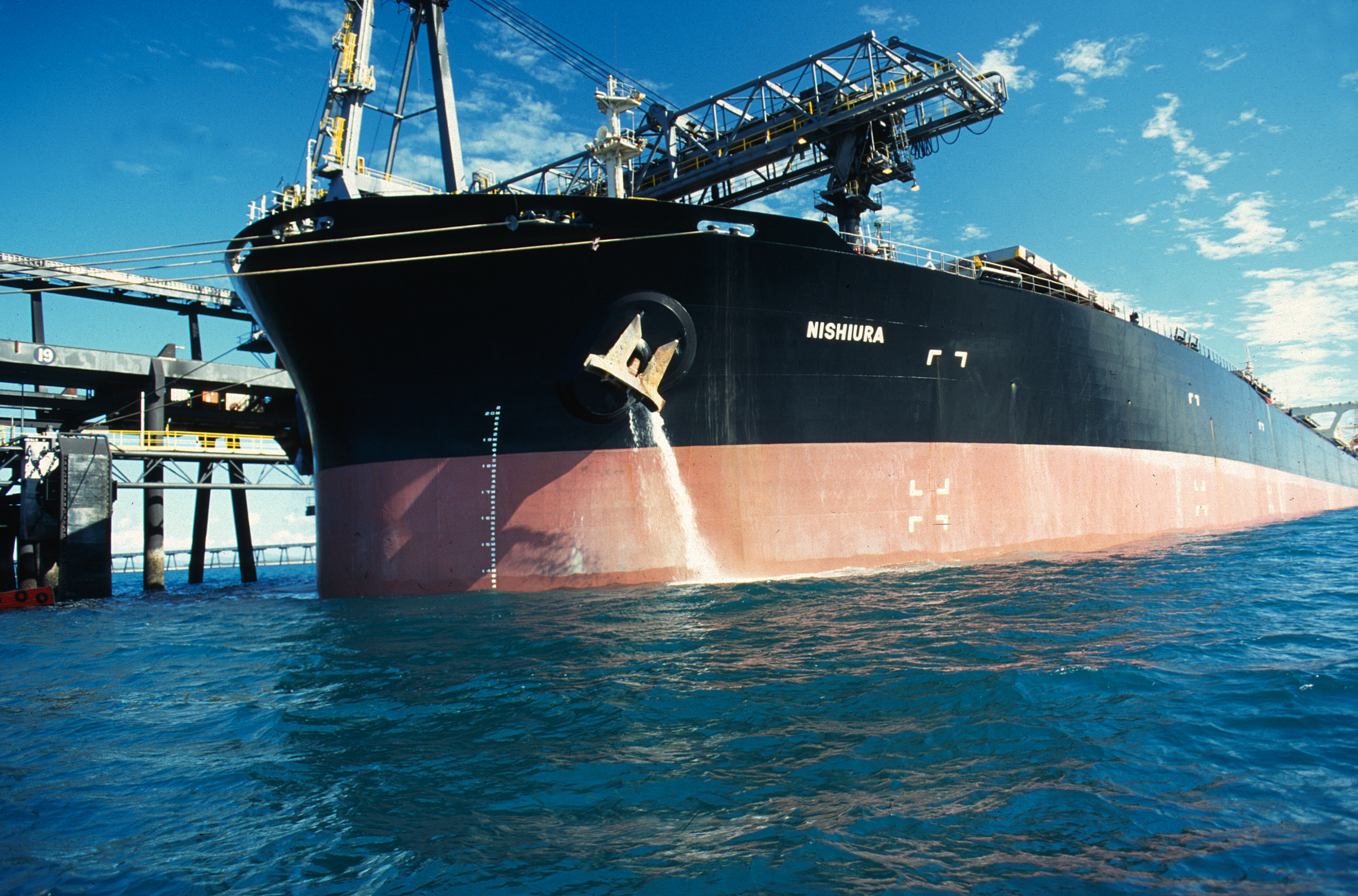 Ballast water is used by shipping world-wide to enhance the safety and operational efficiency of modern vessels. When cargo is unloaded from a vessel, ballast is taken up to maintain the trim and draft of the vessel. When a vessel loads ballast water, it also takes up all the minute organisms contained in that water which may include planktonic species, the larvae invertebrates and fish, and pathogens. These organisms are released with the ballast water at another port when the vessel loads more cargo. It has been estimated that world-wide, over 3,000 species are transported in ballast water every day.